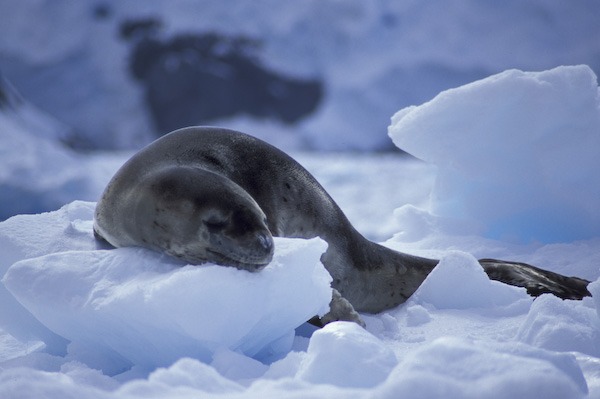 Leopard Seal in Cierva Cove, Antarctic Peninsula. Copyright 2004, Ryan Holliday. The original image can be found at